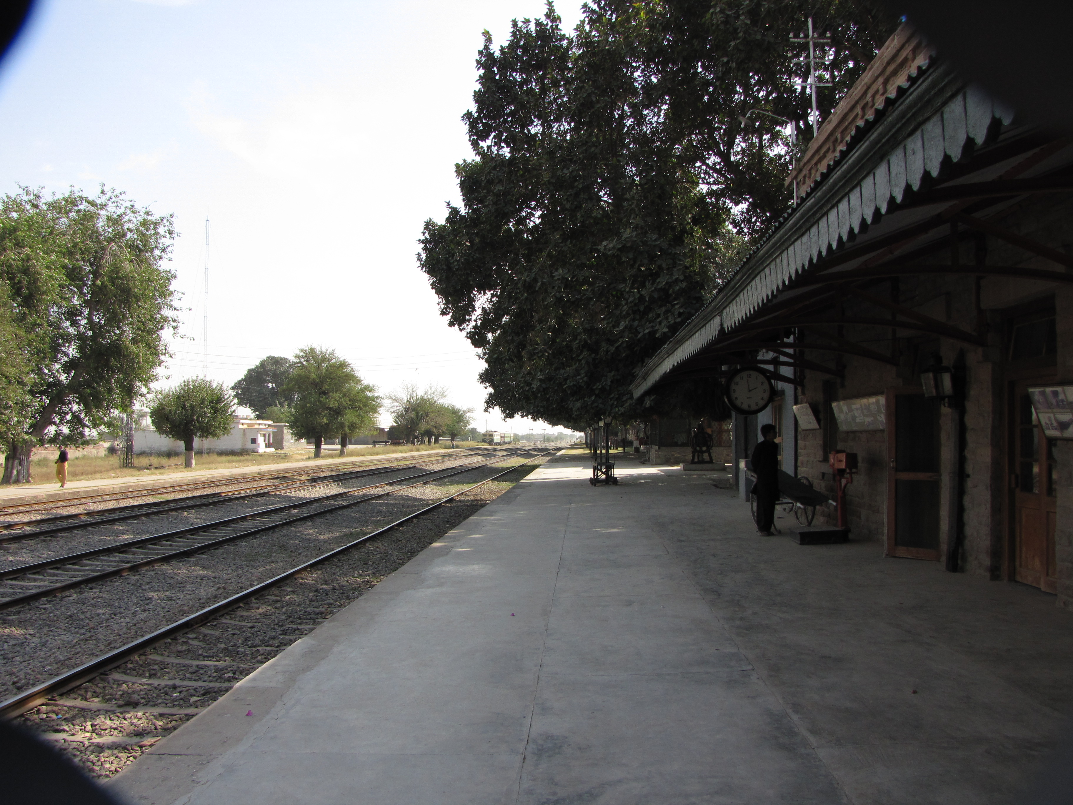 Golra Sharif Railway Station Clock, Islamabad